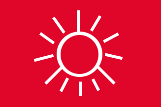 Flag of Sinkiang/Xīnjiāng government 1928-1933. (Note: it appears that this is actually an incorrectly rendered Guomindang party flag, not a flag of the Xinjiang government - see talk page). 文言: 新疆政府旗民國十七年－民國二十一年